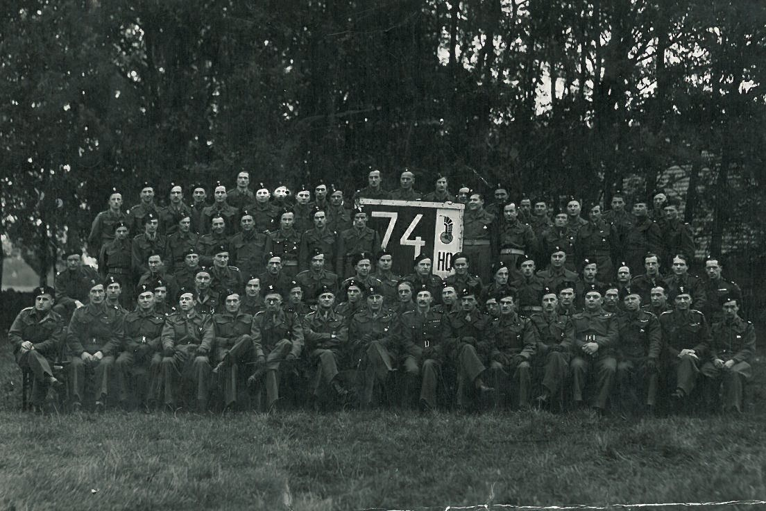 1st Polish Motorized Artillery Regiment